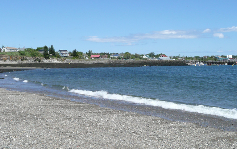 Beach along North Head, Grand Manan Island, New Brunswick.